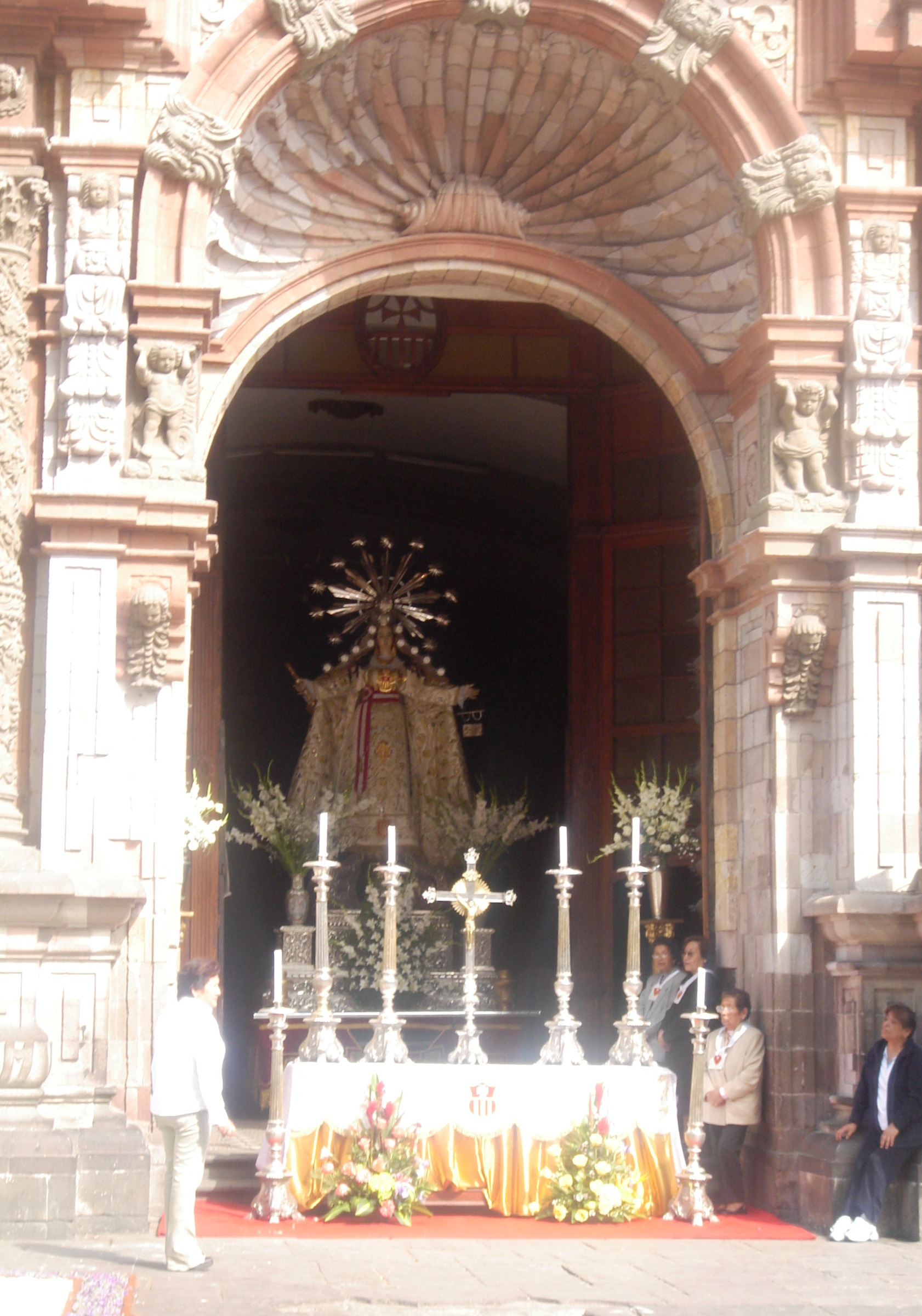 Virgin of Mercy in Lima, Peru.